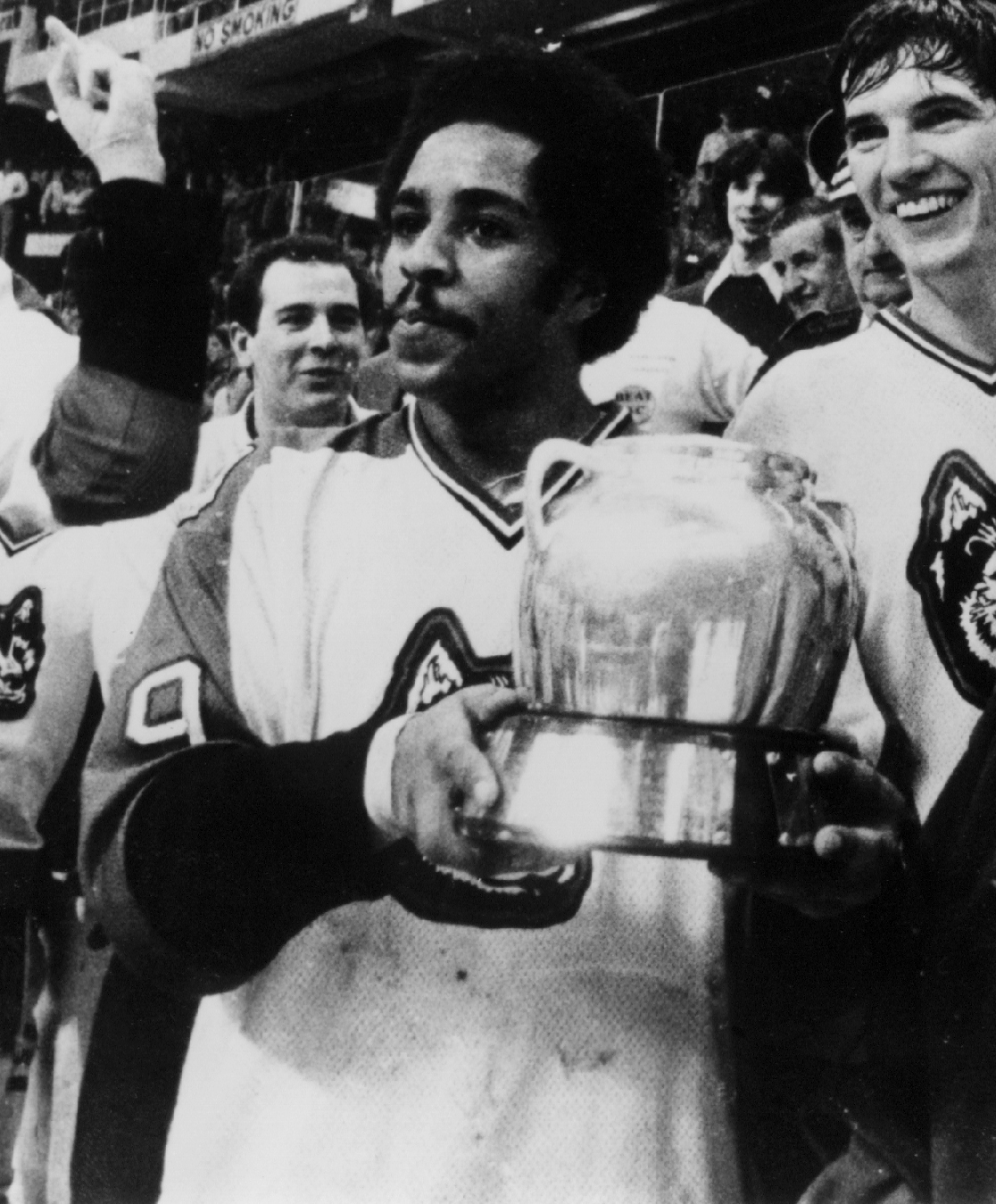 Wayne Turner holding the Beanpot he just helped the Northeastern Huskies win